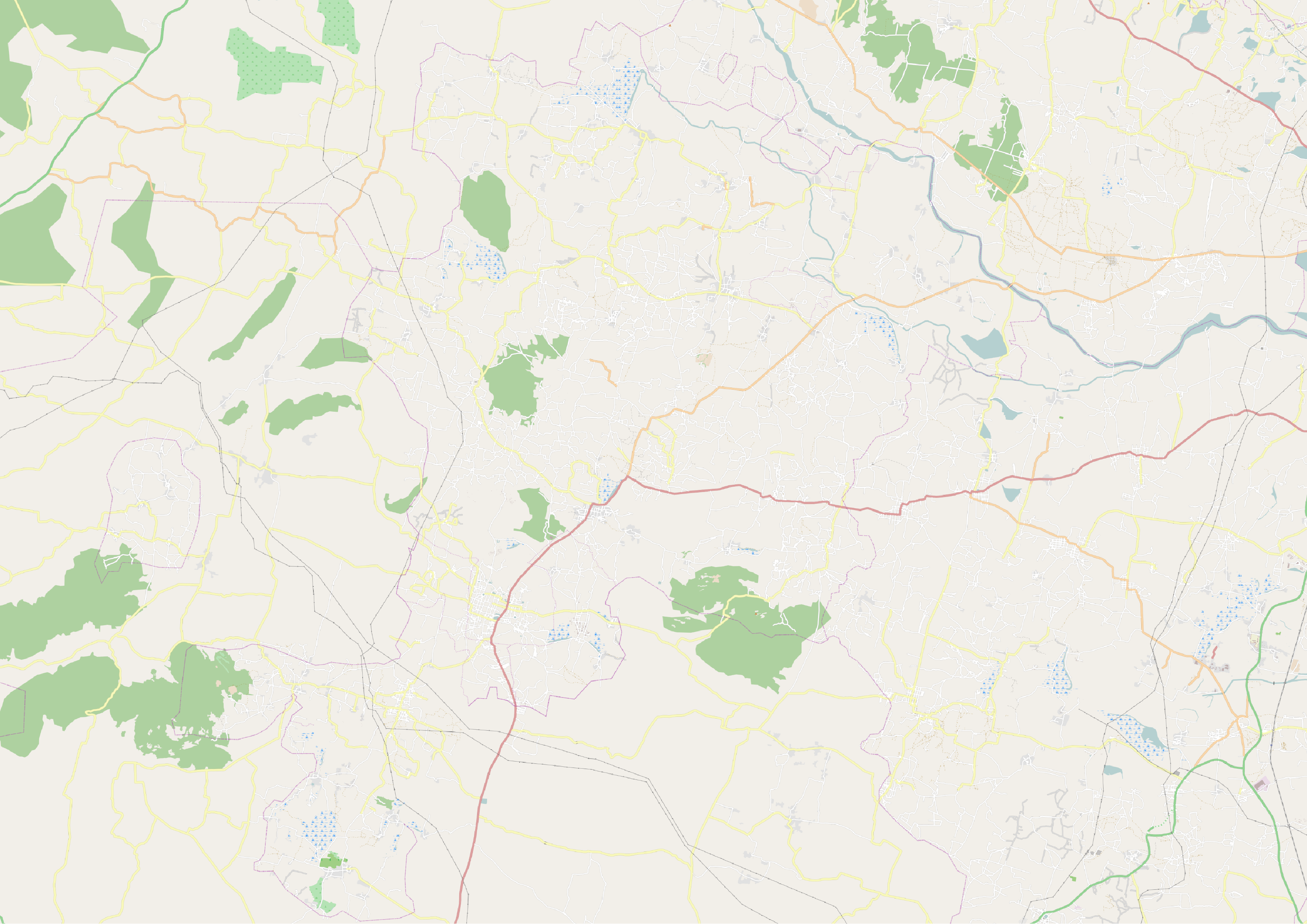 Ponnamaravathi Union Map. Geographic limits of the map: top = 10.451 bottom = 10.190 left = 78.400 right = 78.769